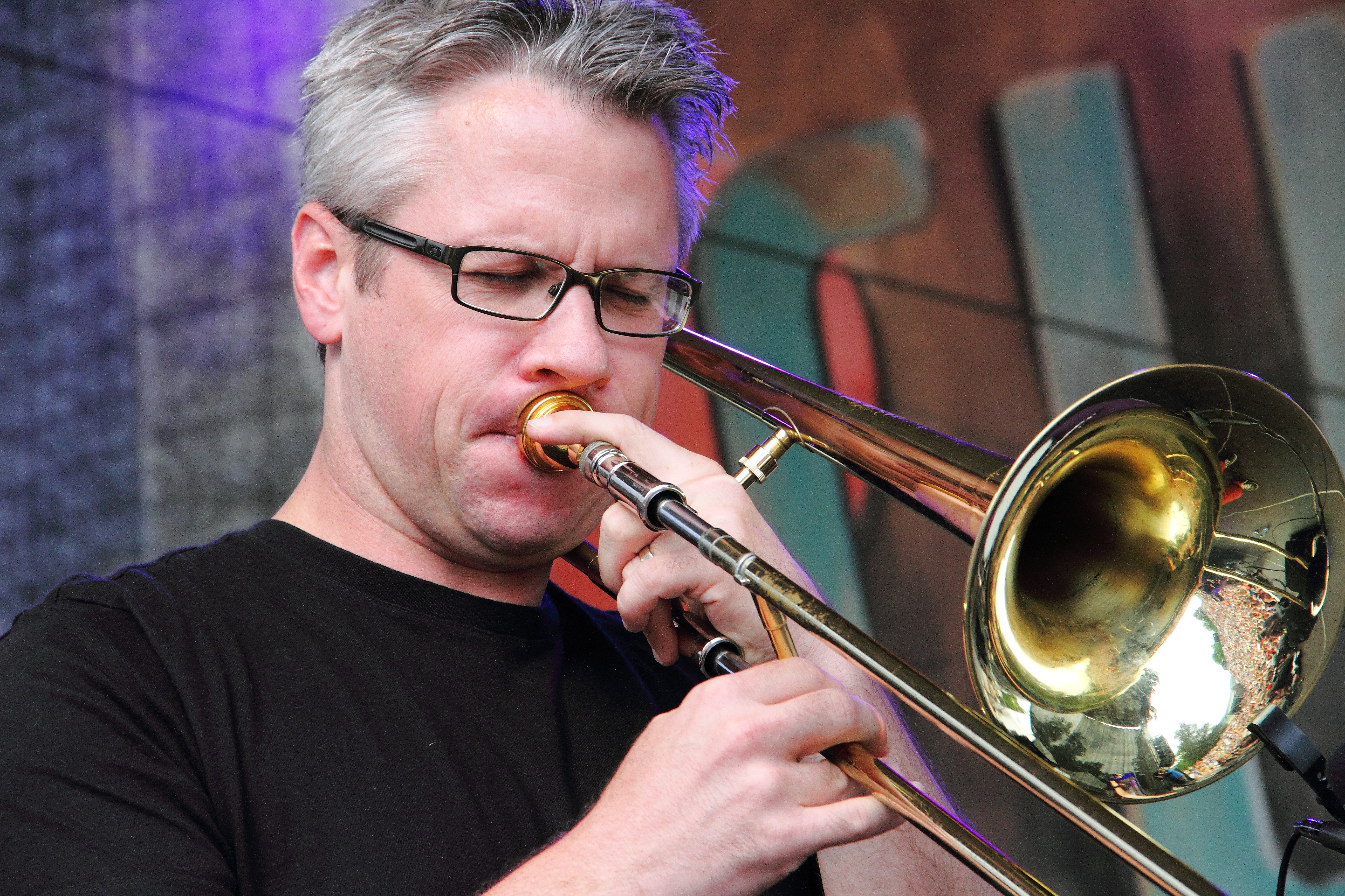 Marshall Gilkes with Edmar Castañeda at Rudolstadt-Festival 2016.